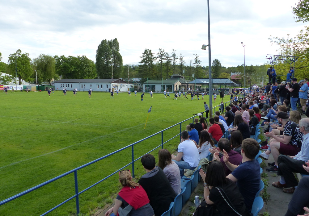 Polish league of rugby union match: Juvenia Kraków - Arka Gdynia, 11.05.2019